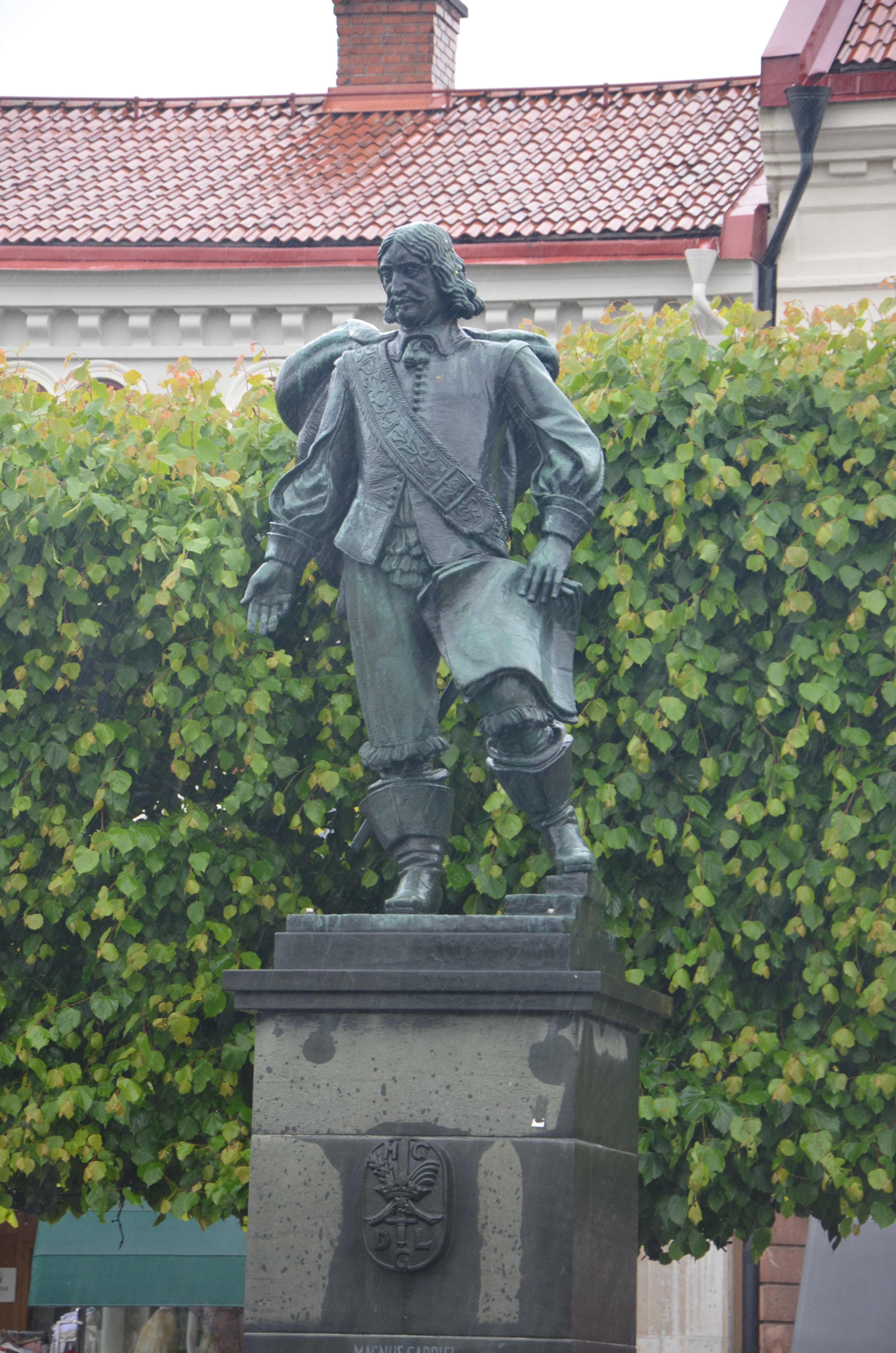 Statue of Magnus Gabriel de la Gardie, part of John Lundqvist' s de la Gardiebrunnen at Nya Torget i Lidköping, 1939